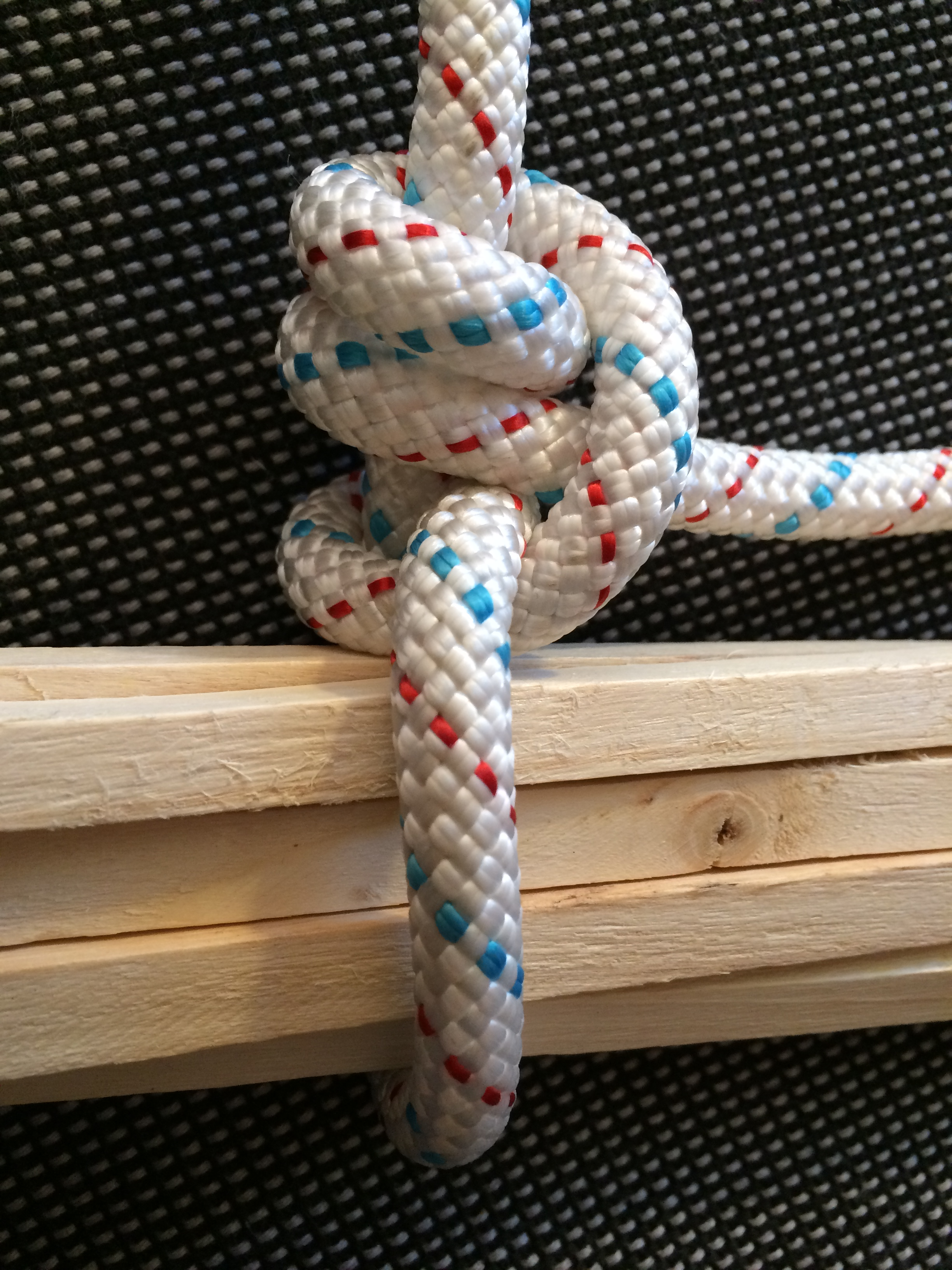 Jamming knot